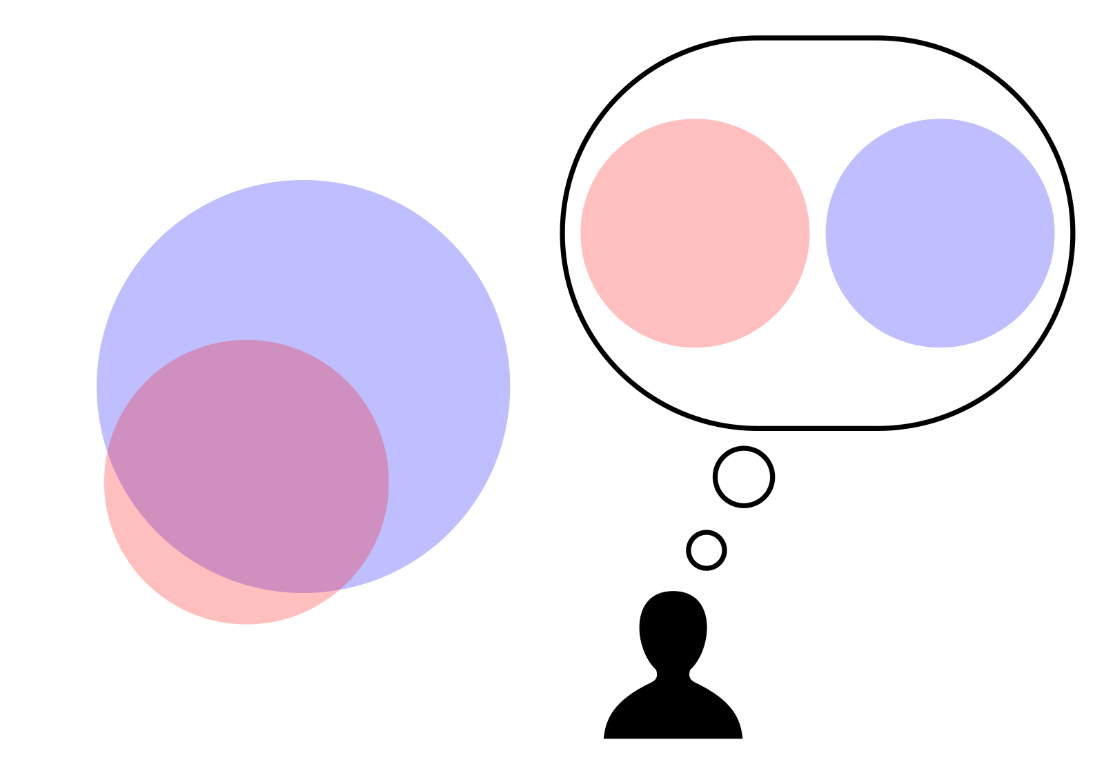 a logical fallacy: Making the false assumption that when presented with an either/or possibility, that if one of the options is true that the other one must be false. This is when the “or” is not explicitly defined as being exclusive.